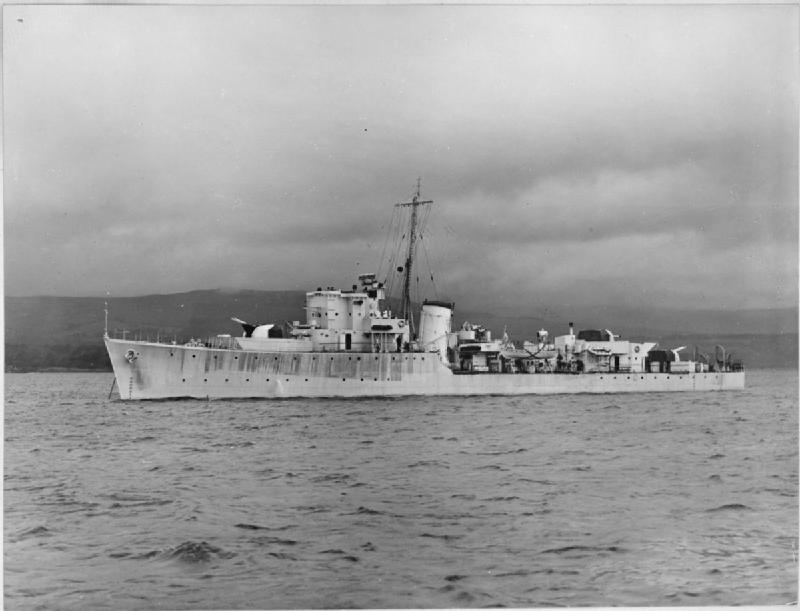 Photograph of British Hunt class destroyer HMS Cowdray.